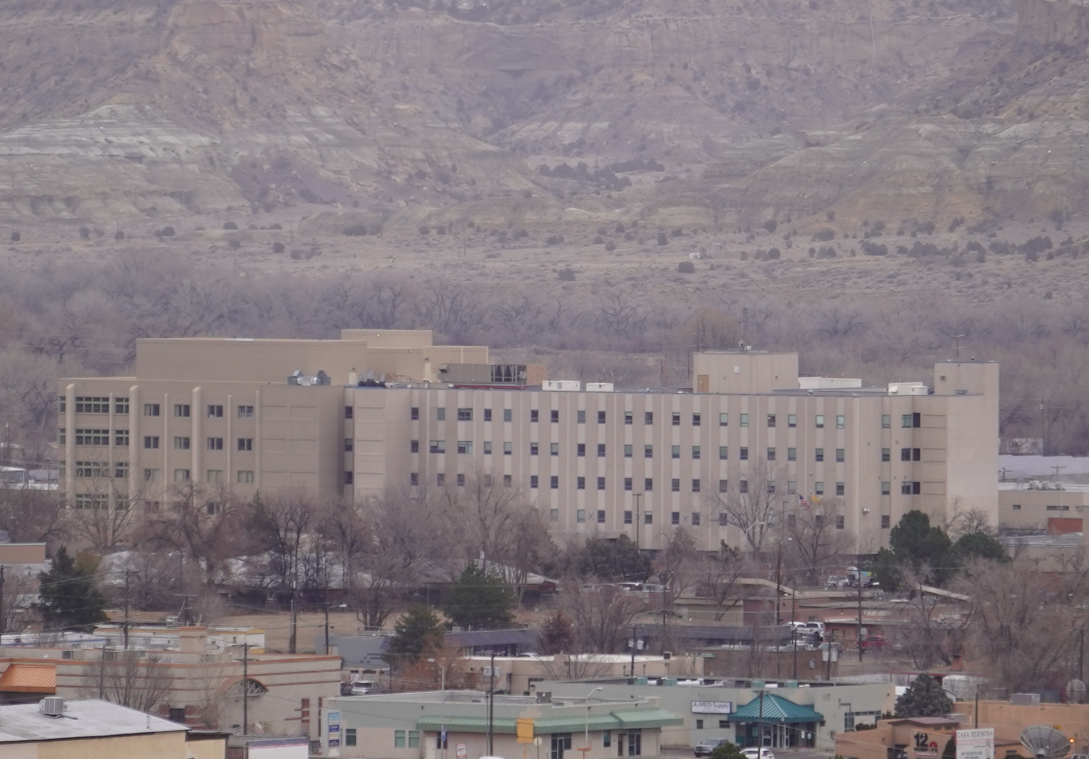 Photograph of the San Juan Regional Medical Center as taken from the Four Corners Regional Airport mesa to the north. Photograph taken on 2019-02-19T11:08:04Z.